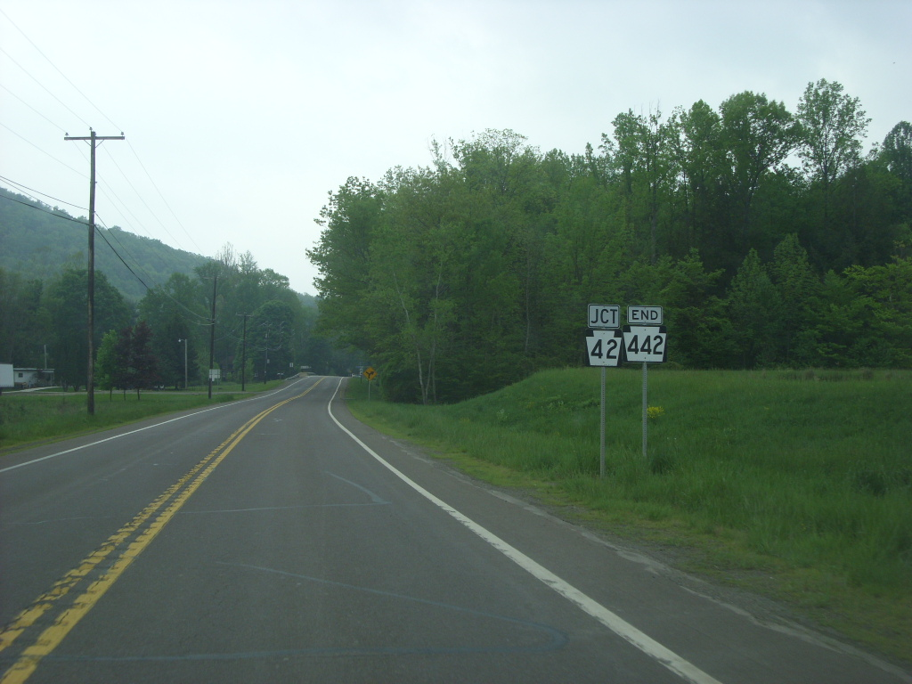 Pennsylvania State Route 442 at the intersection with Route 42 in Iola, Pennsylvania.